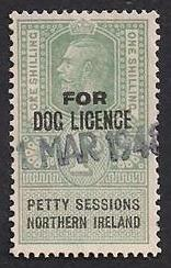 1922 Northern Ireland dog licence stamp used in 1948.